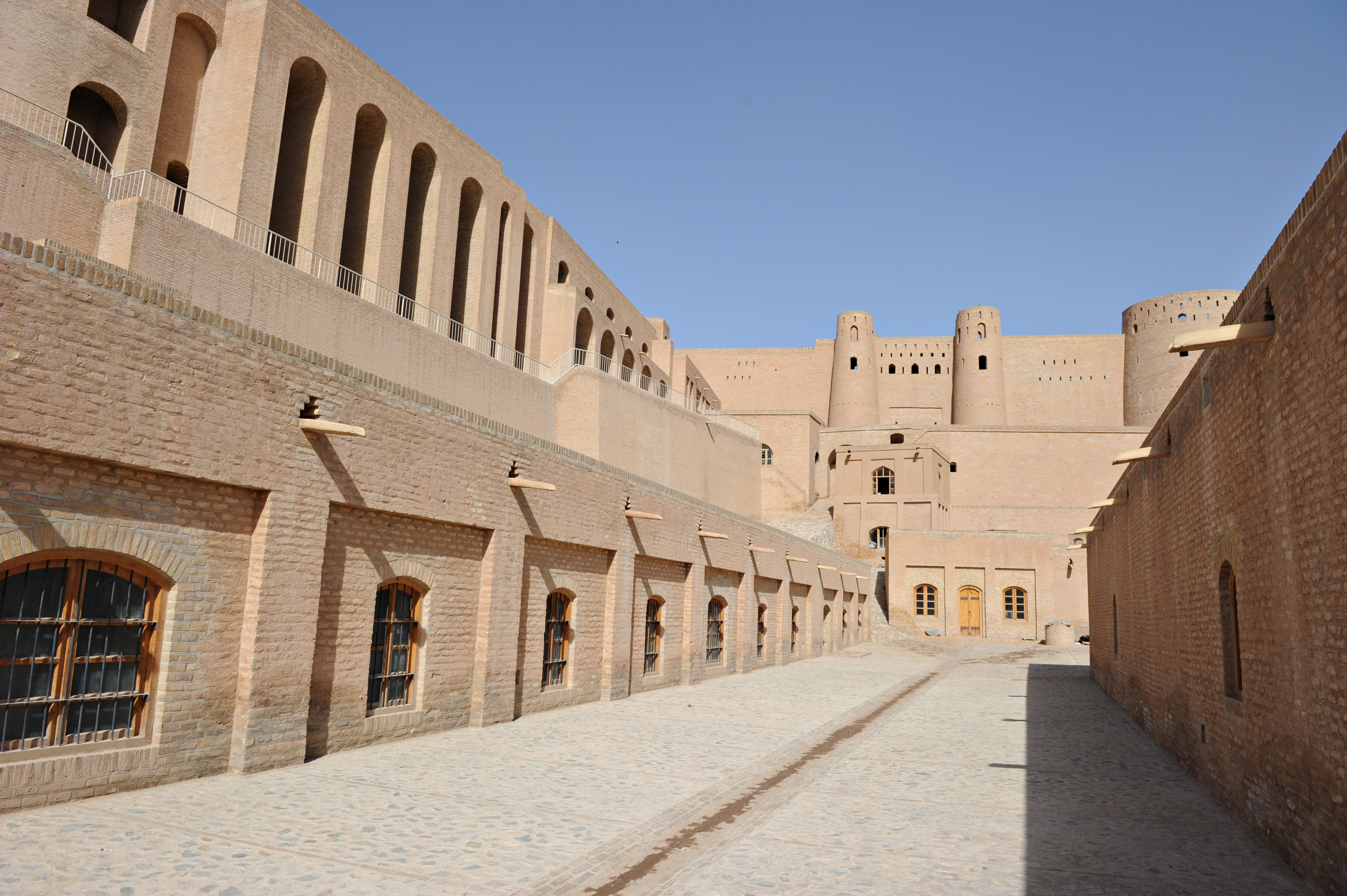 The Qala Ikhtyaruddin (Citadel) in Herat, Afghanistan.